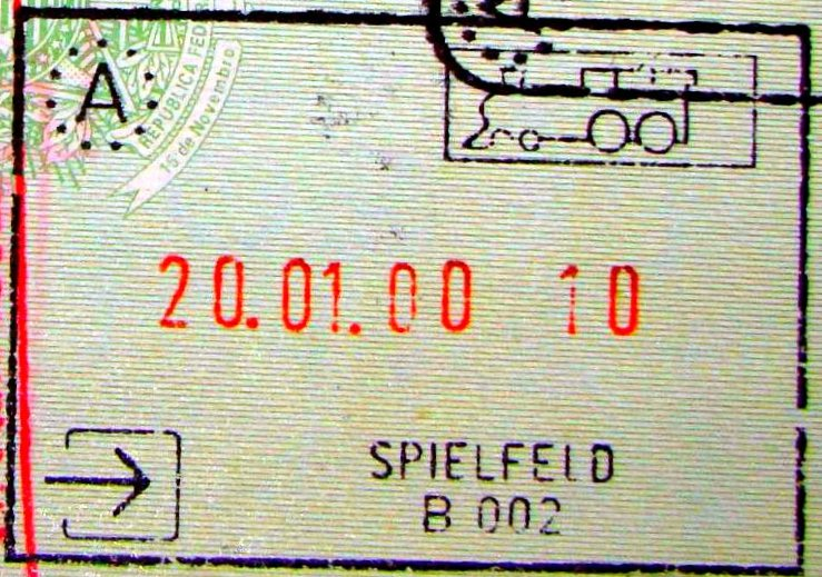 Passport stamp from Spielfeld, Austria.